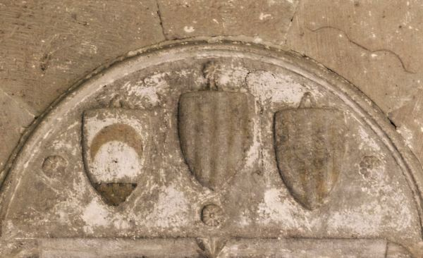 Real Monasterio de Santa María de Veruela